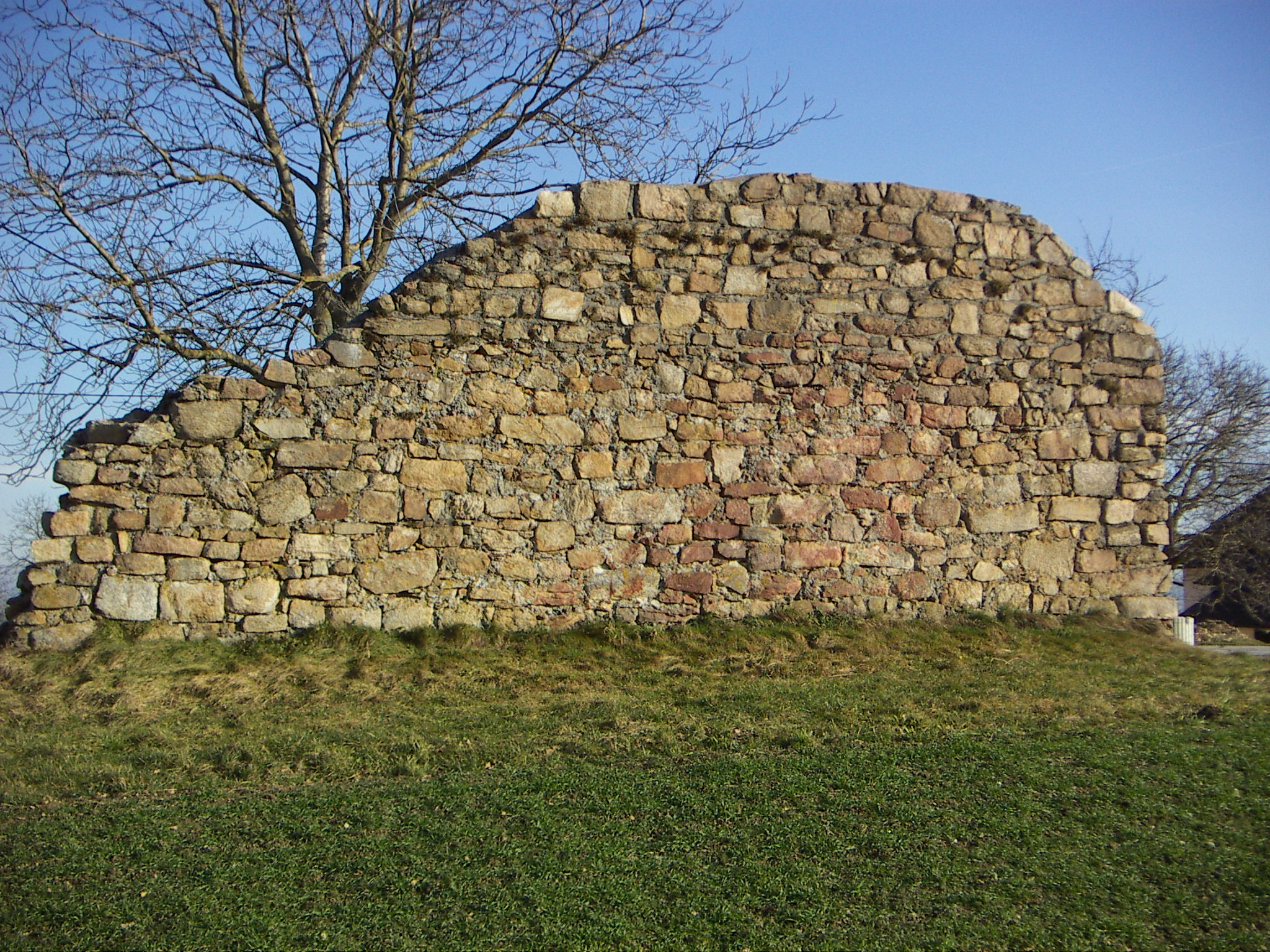 The photograph shows the ruin wall of a former roman-catholic church on a hill called "Frankenberg" (mountain of the Franks) in the community of Langenstein, Austria. This ruin is a monument that reminds to the extermination of approx. 300 protestants who fled into this church by Upper Austrian state troops on May 12, 1636.